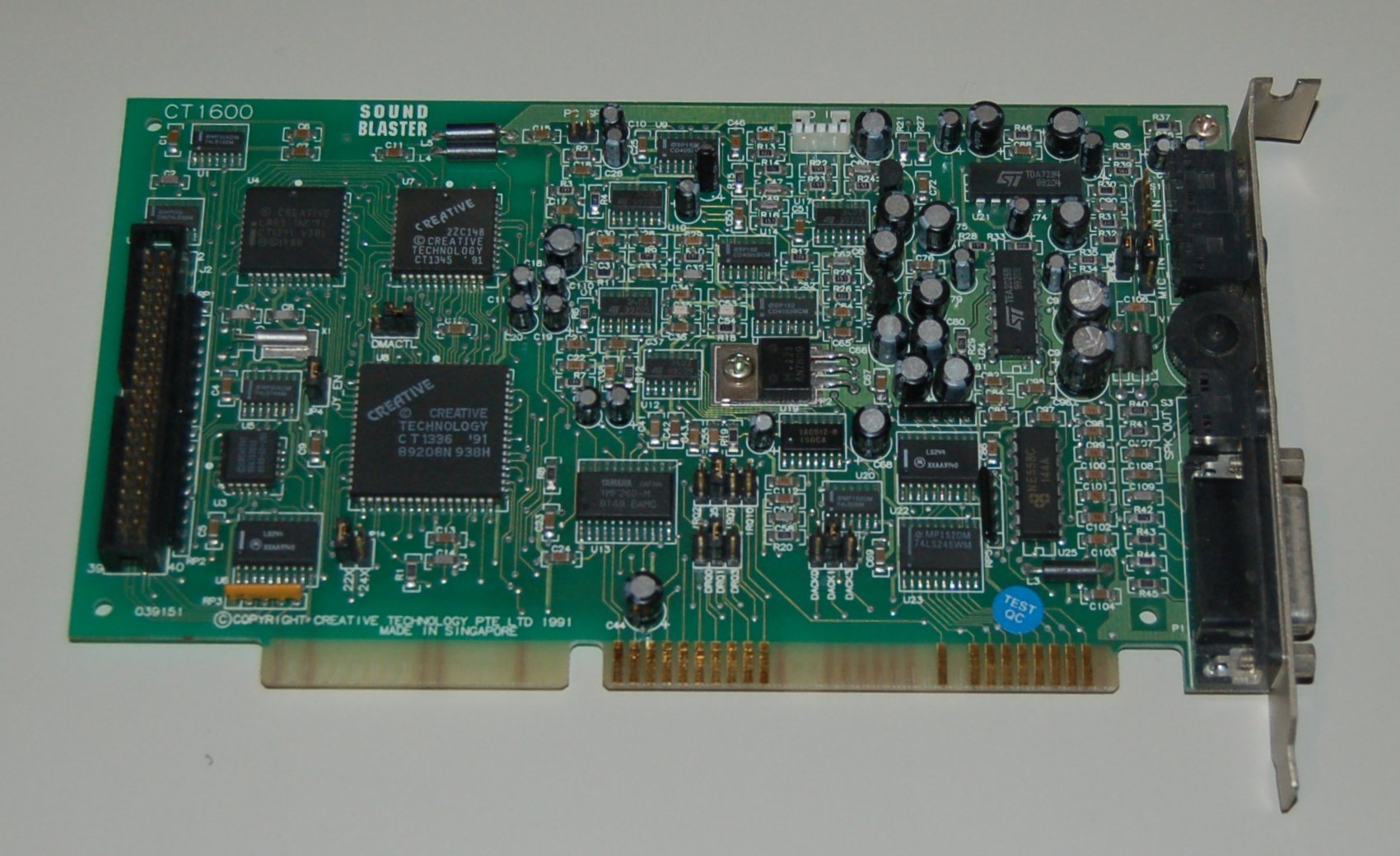 Creative Sound Blaster Pro 2.0 Audio Card (1991).